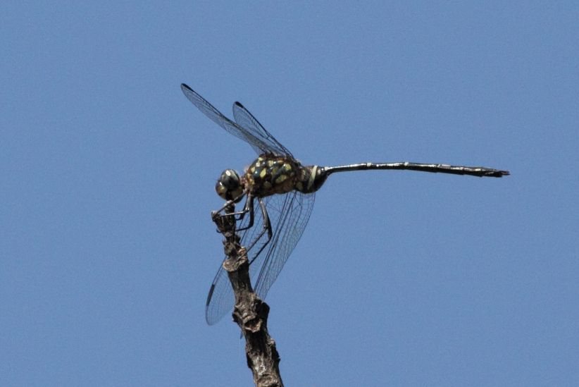 Male Bottletail Olpogastra lugubris at Letaba Camp, Kruger National Park, South Africa. OdonataMAP record no. 10042